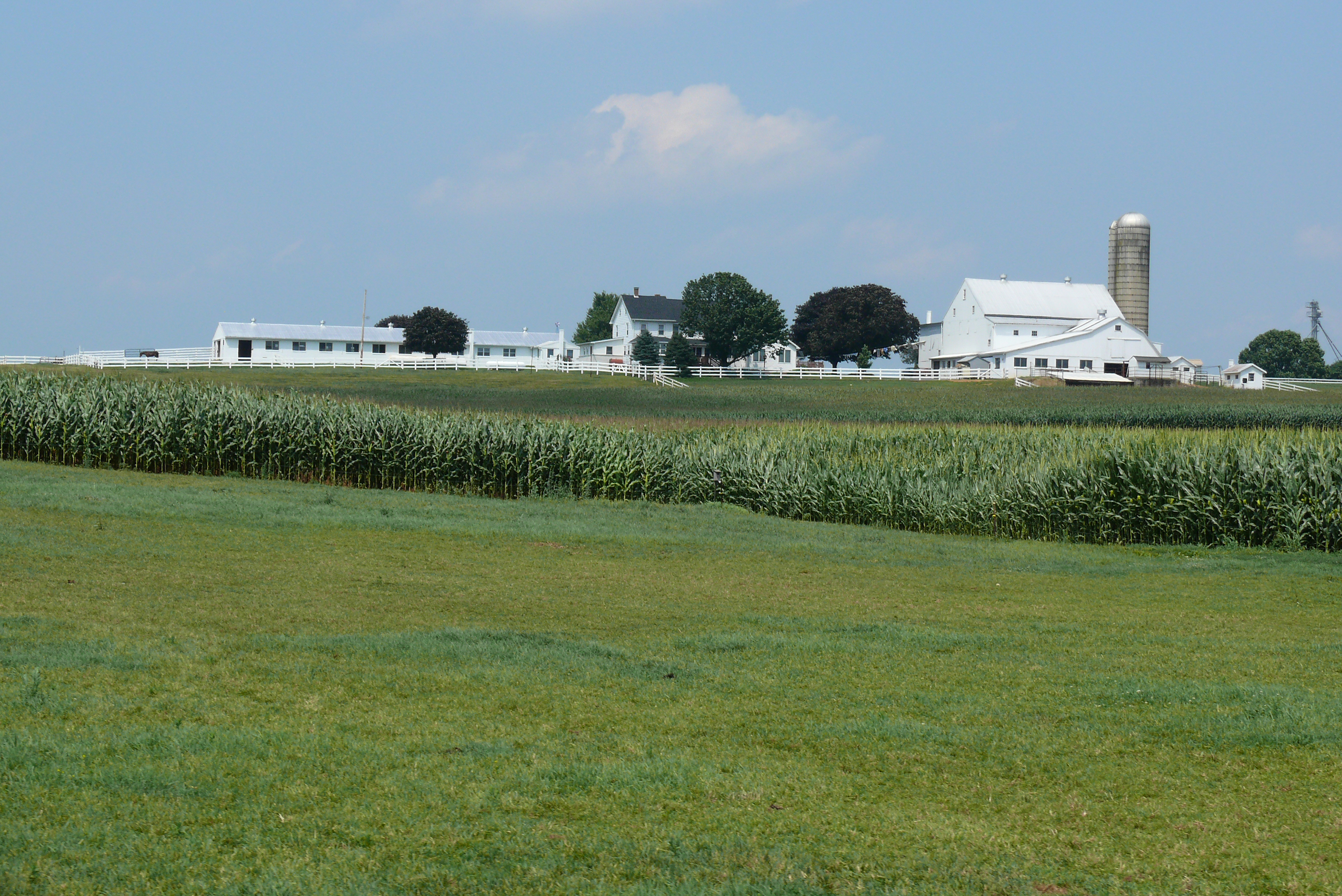 Amish dairy farm in Lancaster County, Pennsylvania